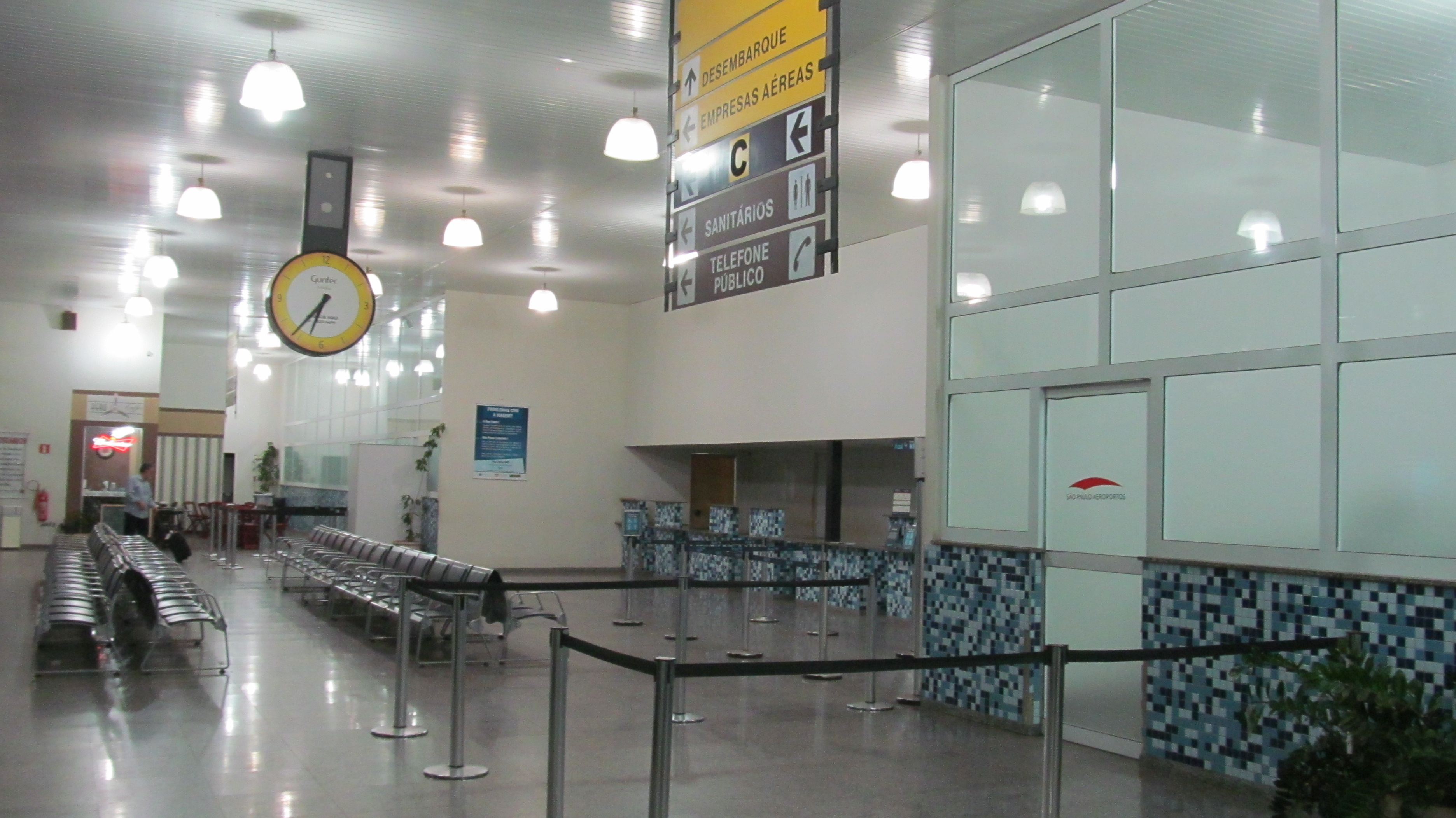 Araçatuba Airport (ARU), internal view, São Paulo, Brazil